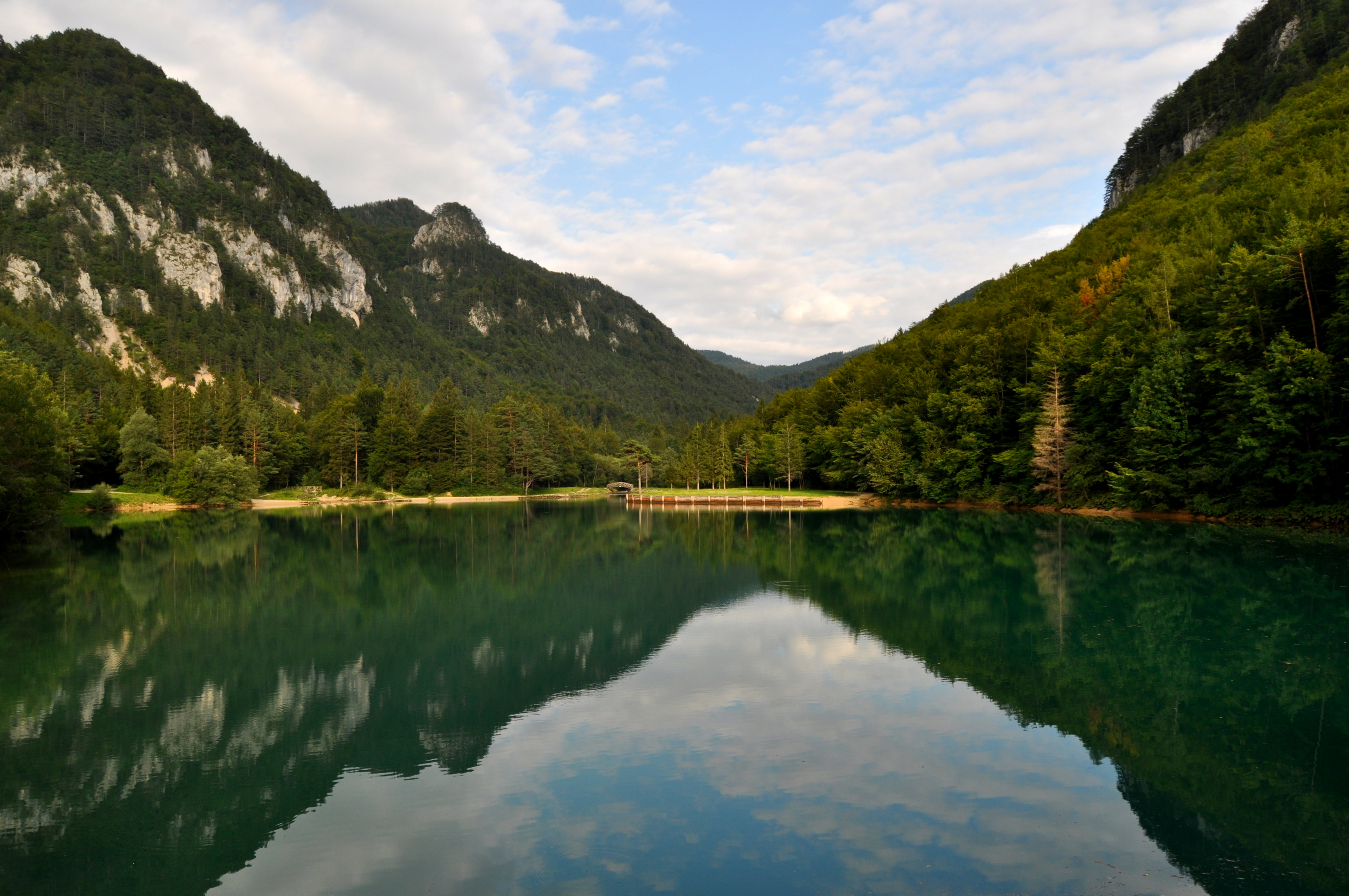 Barrage lake in Završnica, Slovenia